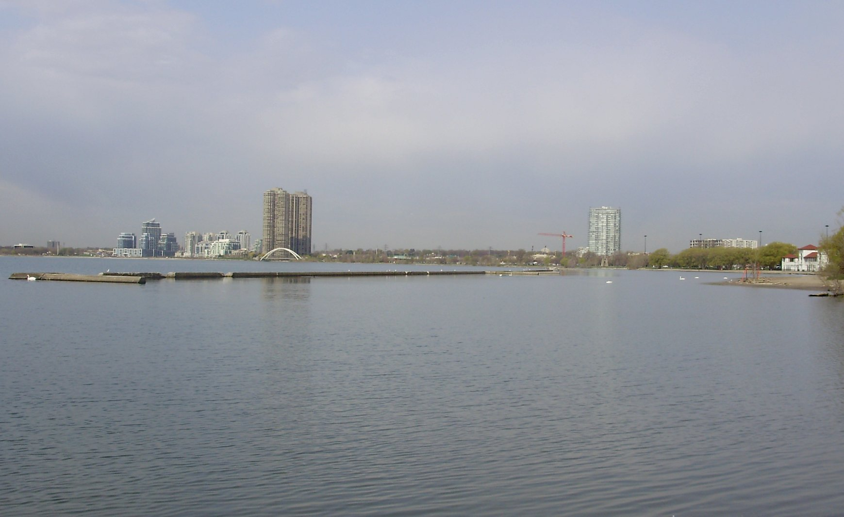 Looking toward Etobicoke from Toronto's Budapest Park. The Humber Bay Arch Bridge is visible in the distance.